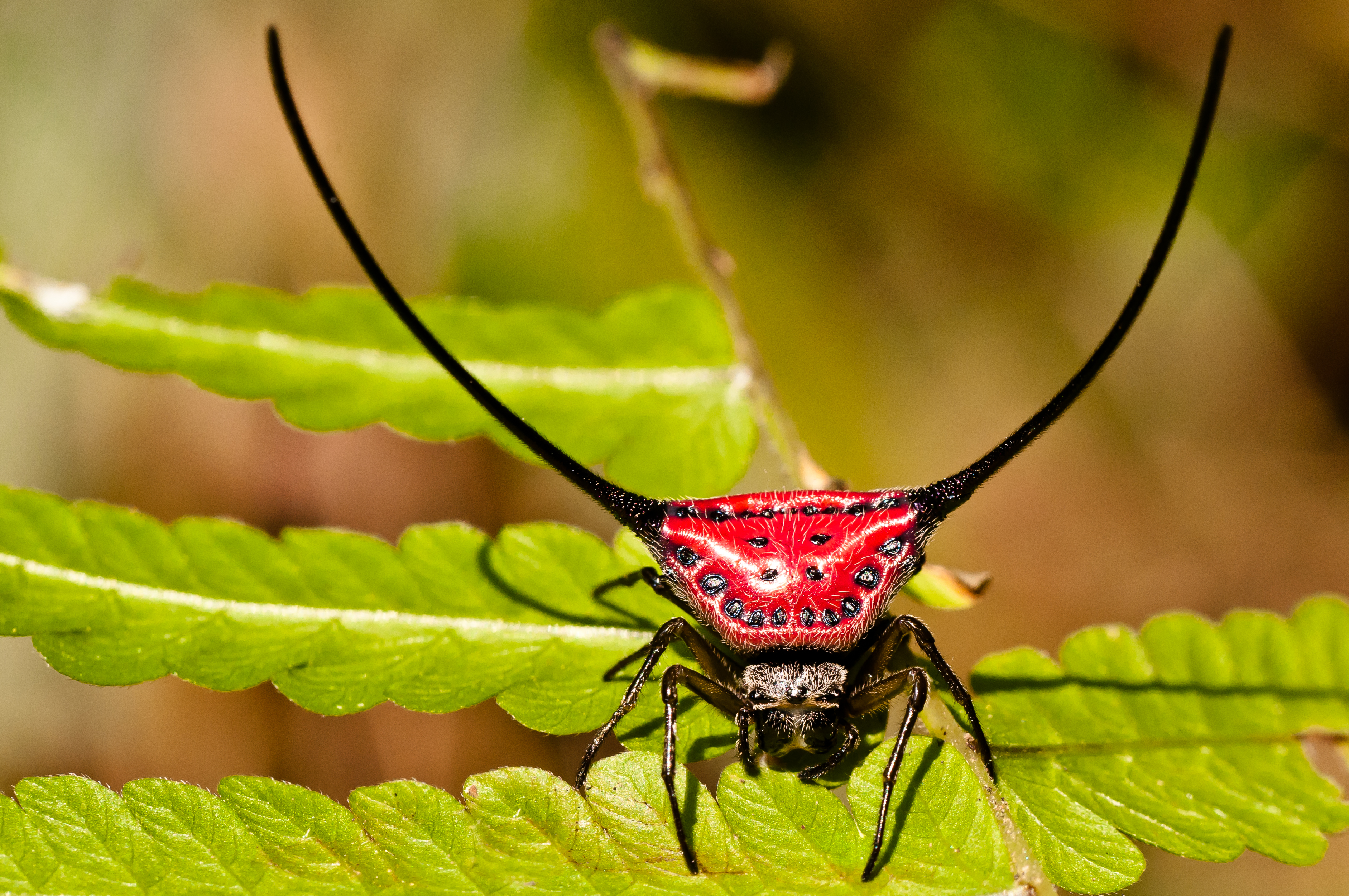 Curved Spiny Spider (Macracantha arcuata). Kaeng Krachan National Park, Thailand